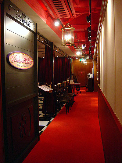 Taisho Roman Do Sakura Cafe, the theme café related with Sakura Wars, in Ikebukuro GiGO, Tokyo